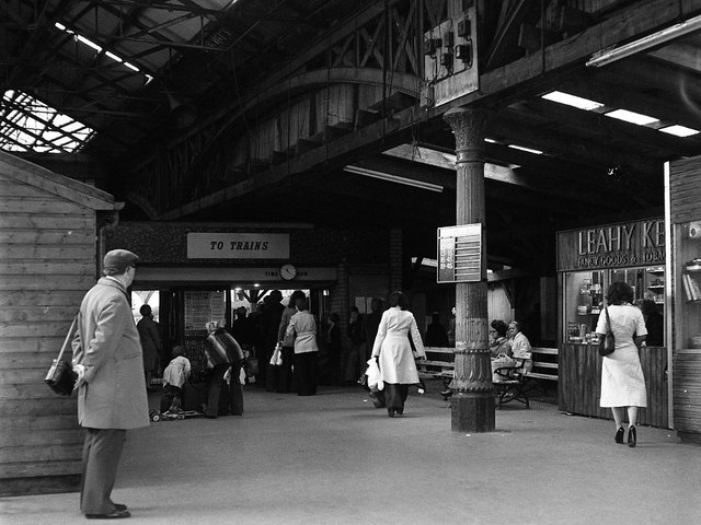 Great Victoria Street railway station - interior. For a history of the station, see 2413363 Once the Belfast terminal for train services to Dublin, Enniskillen, Bundoran and Londonderry (via Omagh and Strabane), Great Victoria Street was a shadow of its former glory when... more